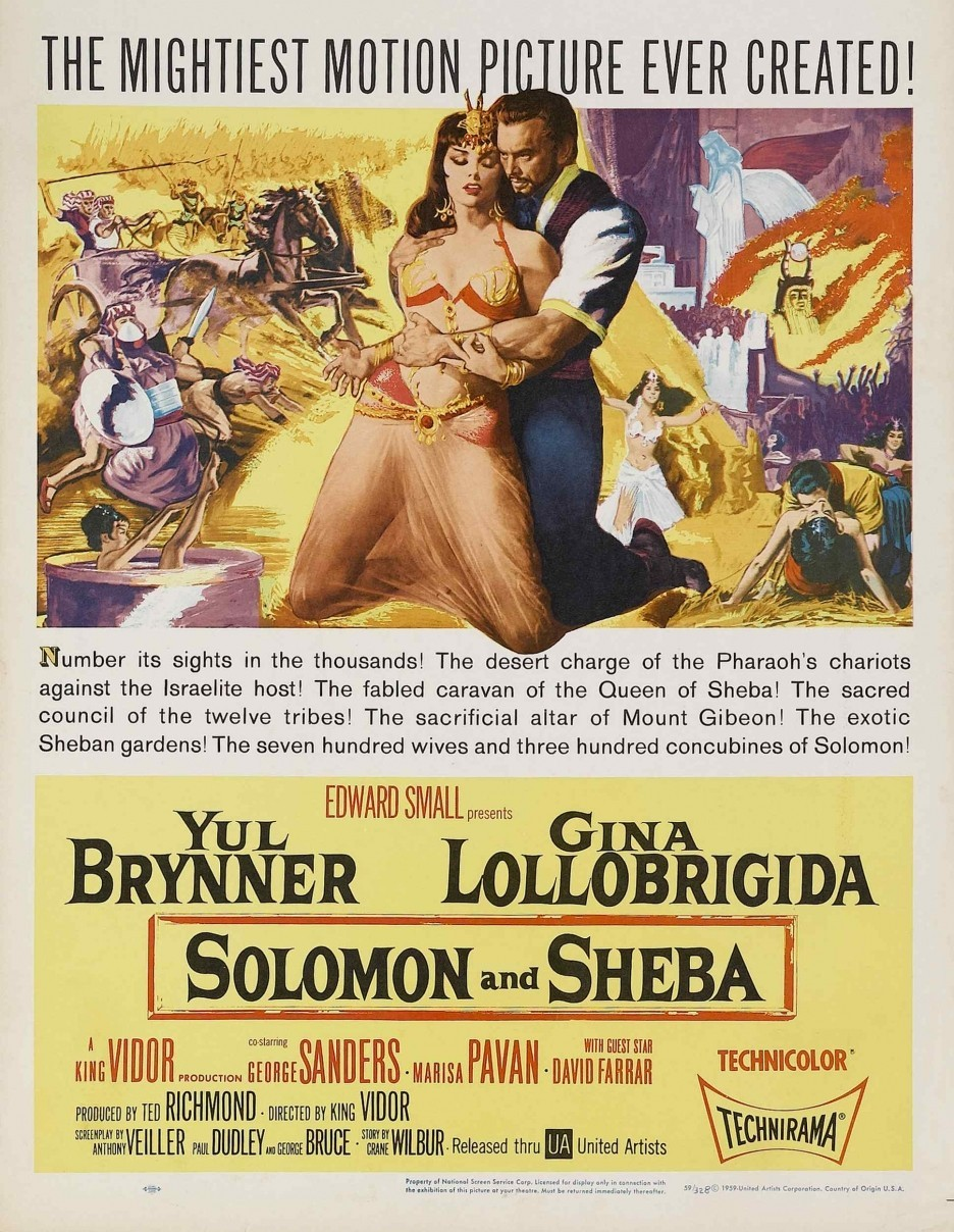 Original theatrical release poster for Solomon and Sheba (1959).